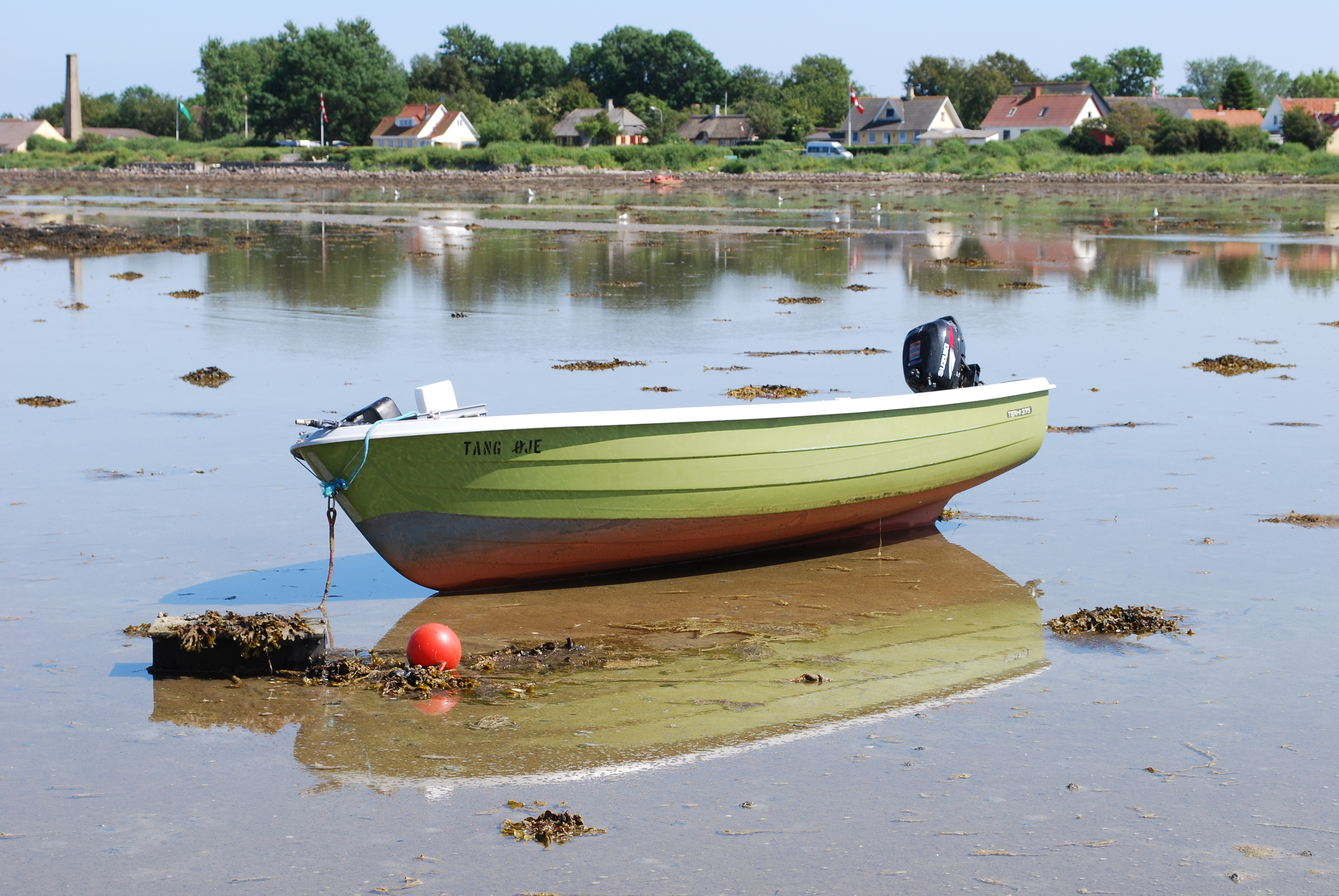 The danish island Endelave